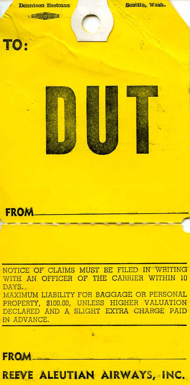 United States of America, Reeve Aleutian Airways yellow bag tag front with destination Dutch Harbor in use in 1972.